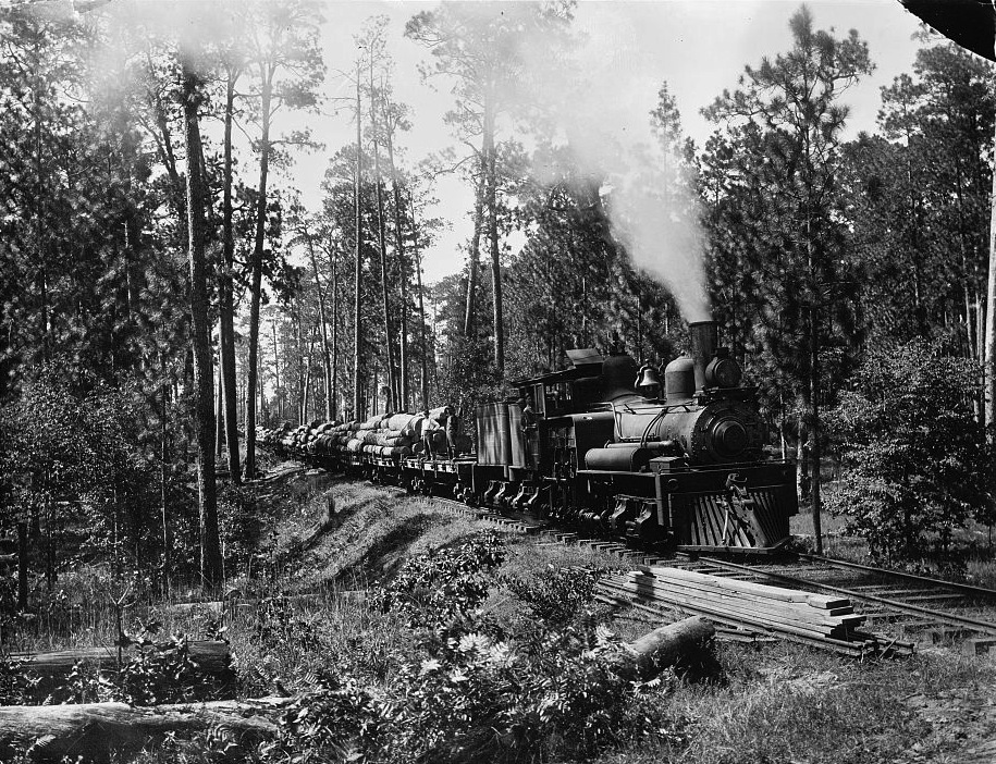 Log train / Class C 3 truck Shay locomotive